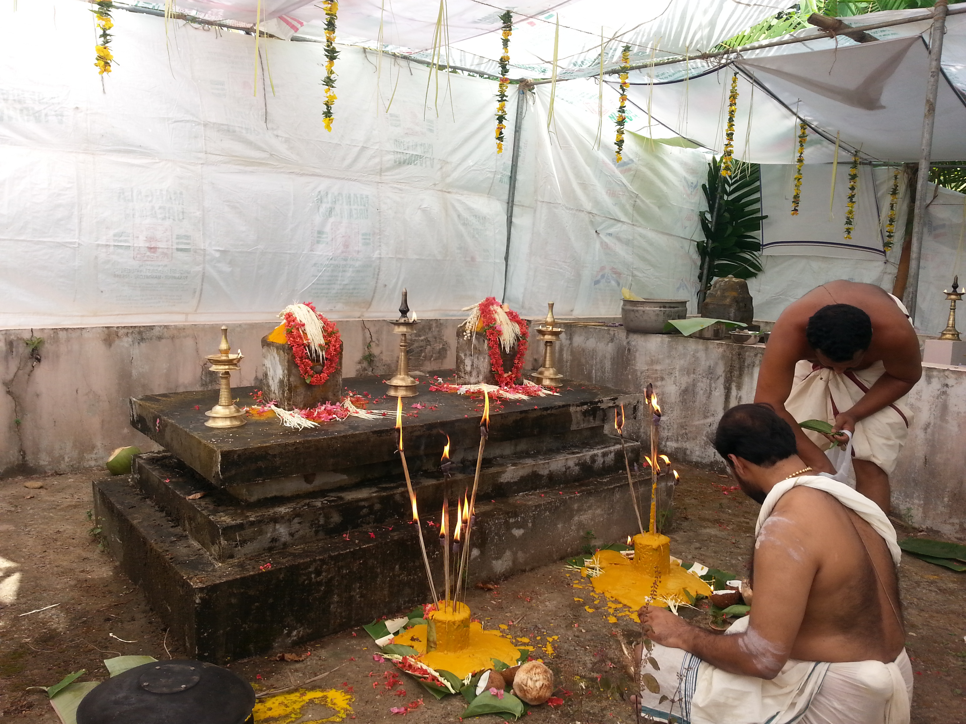 Snake Pooja Kerala Champakulam Eravelil